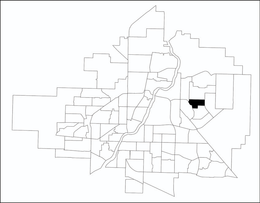 A map showing the location of the University Heights Suburban Centre neighbourhood in relation to the other neighbourhoods in Saskatoon.